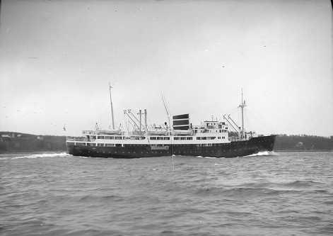 Norwegian coastal express (Hurtigruten) MS Erling Jarl (built in 1949)